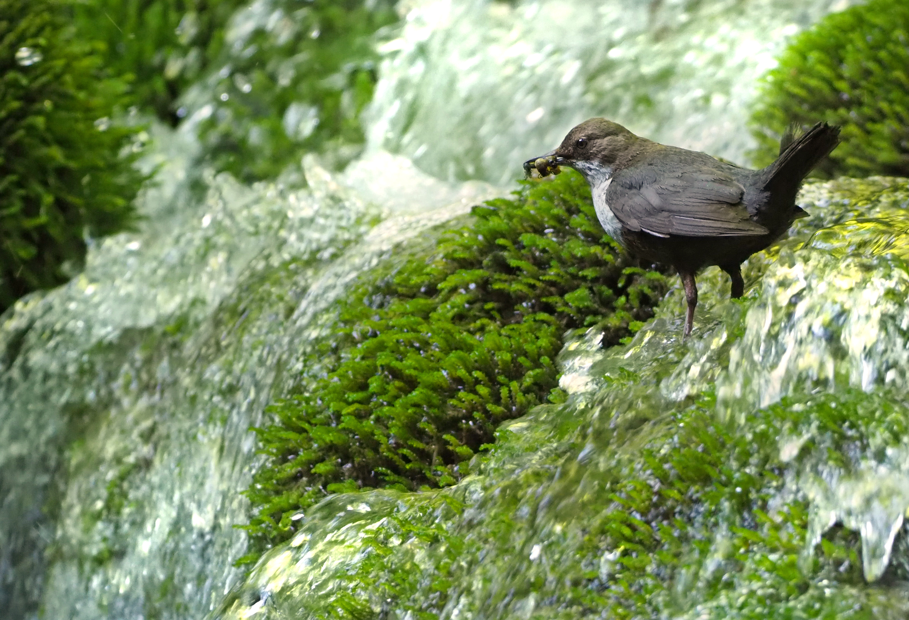 Dipper (Cinclus cinclus), Bigar Waterfall, Caras-Severin, Romania